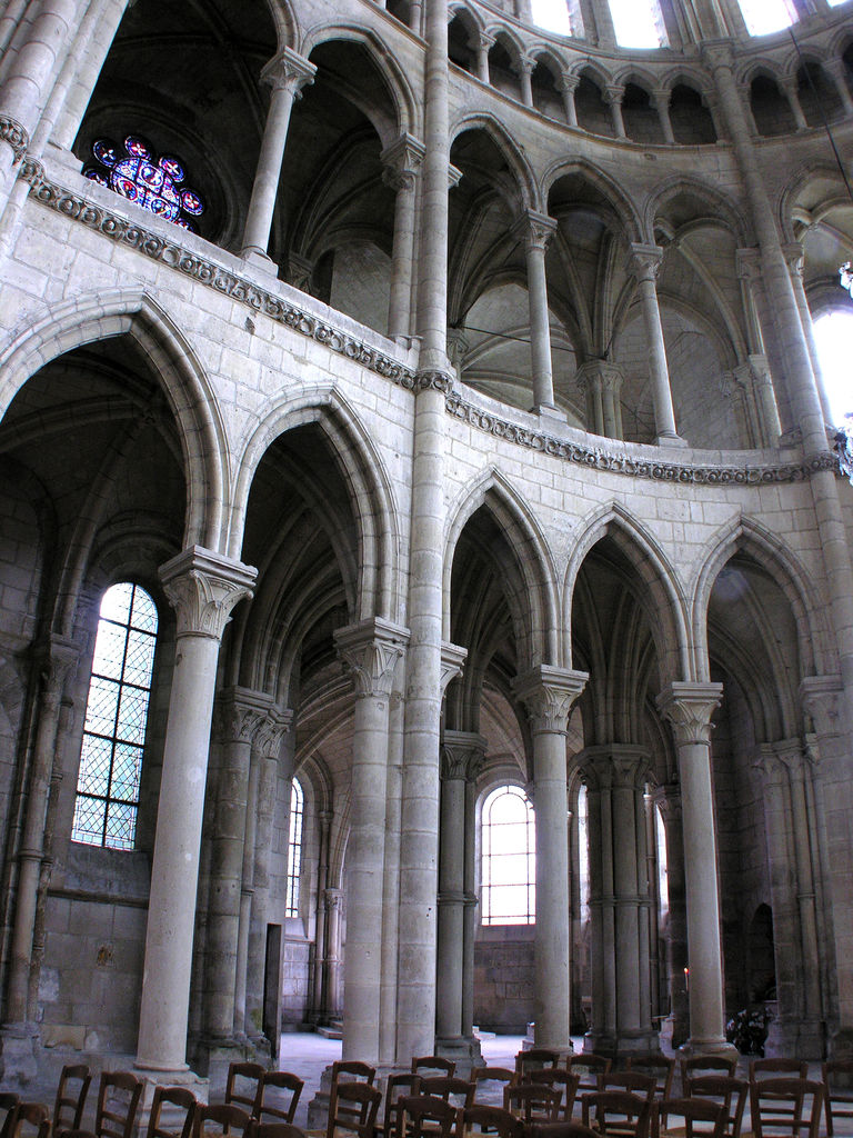 Soissons Cathedral, interior, south transept